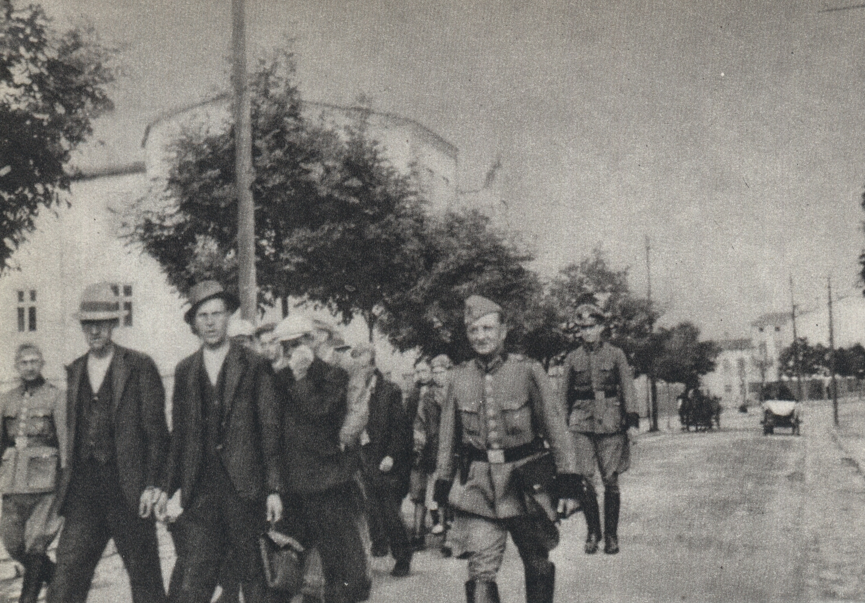 The Bloody Wednesday in Olkusz, German-occupied Poland, 1940.